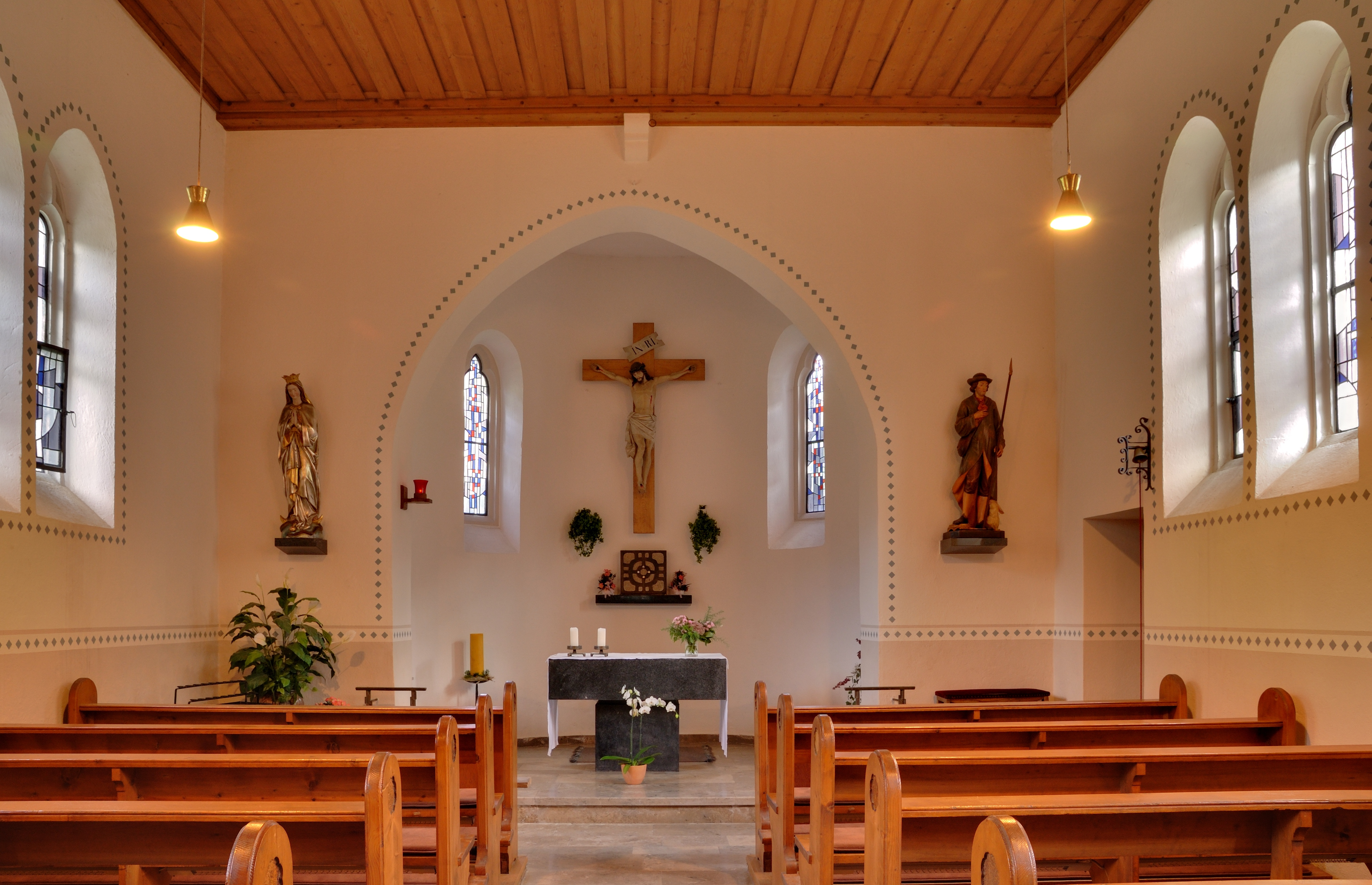 Brandenberg: Saint Wendelin Church